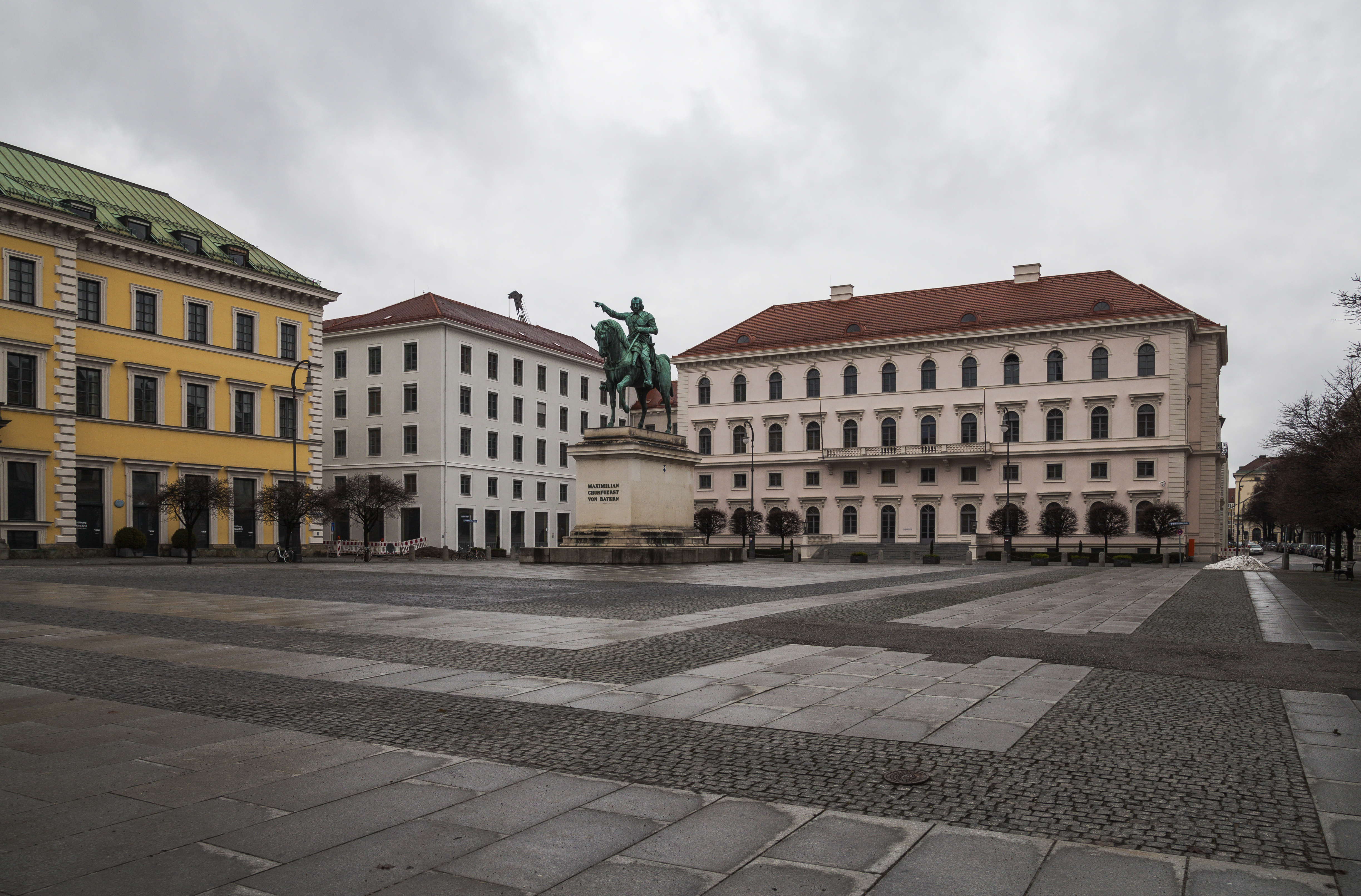 Wittelsbacherplatz, Munich, Germany